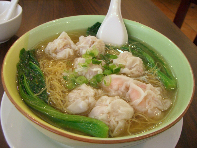 Wonton noodle soup in Boston's chinatown